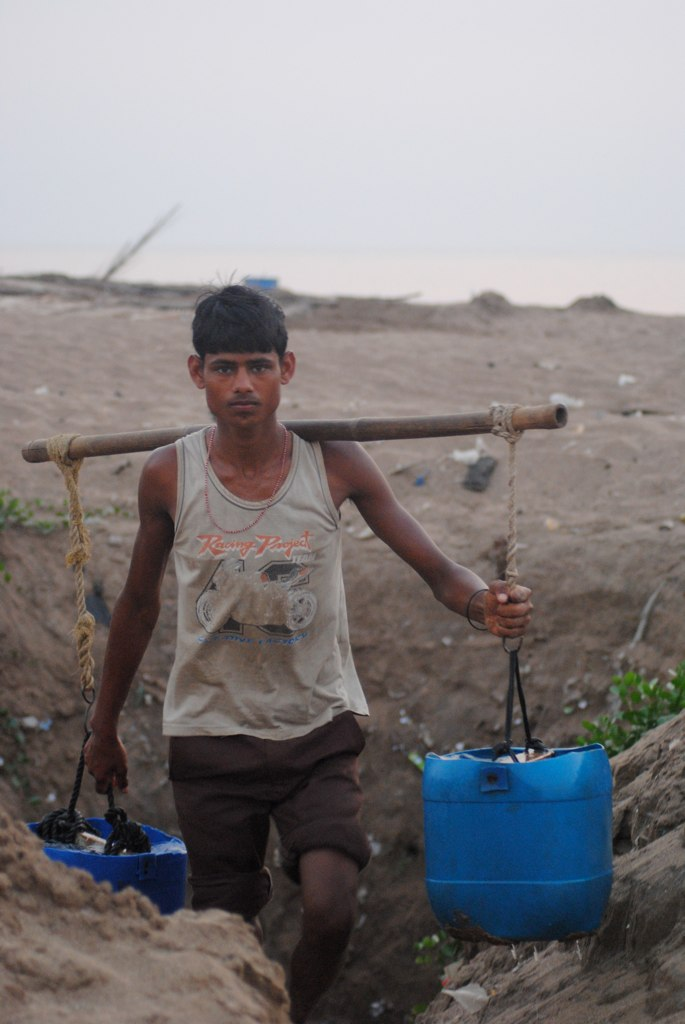 The Methi (Fenugreek) sprouts are watered every morning and then covered with dried coconut fronds to shelter them from the direct glare of the sun.